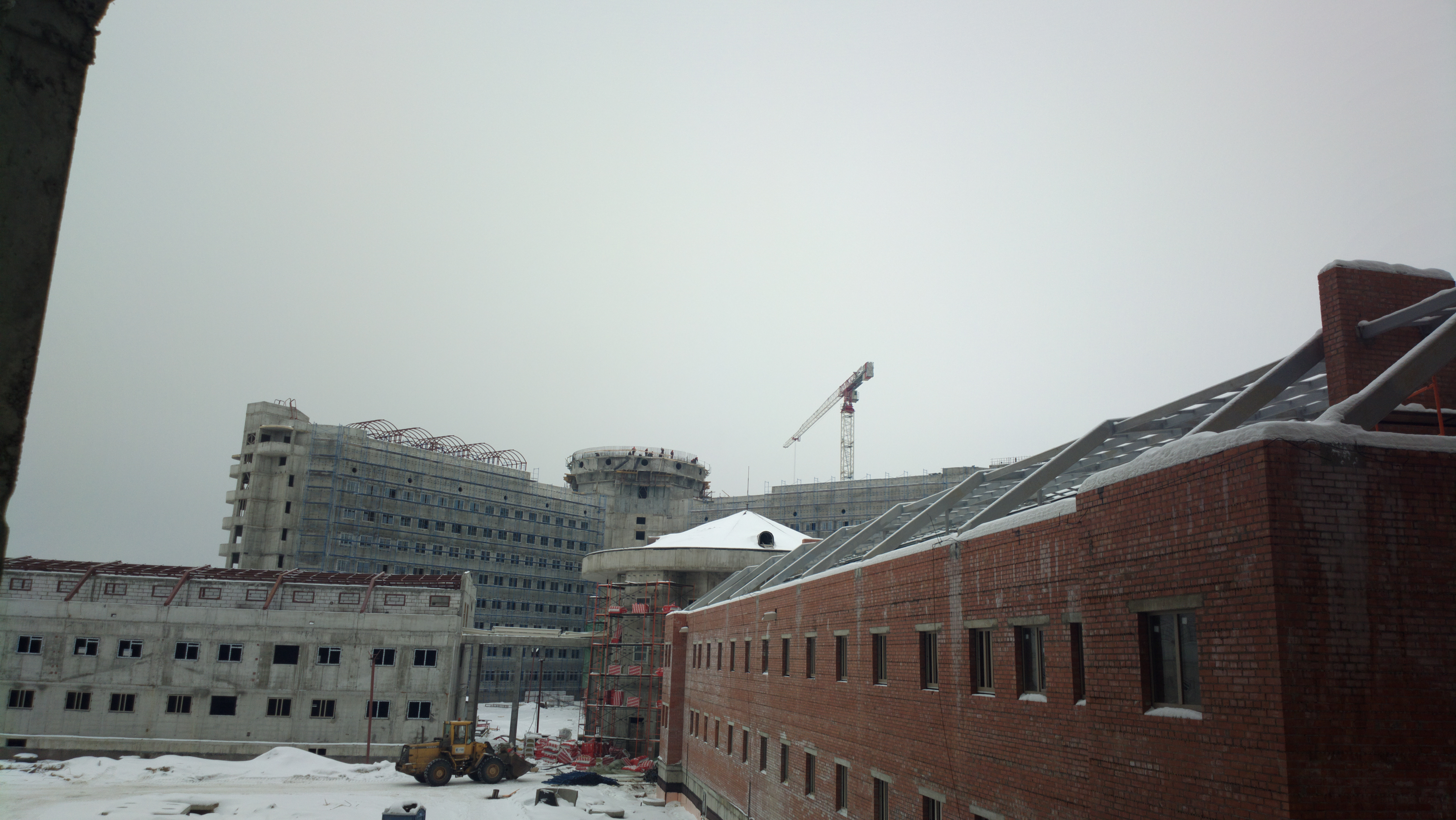 Northern Cross prison Kolpino